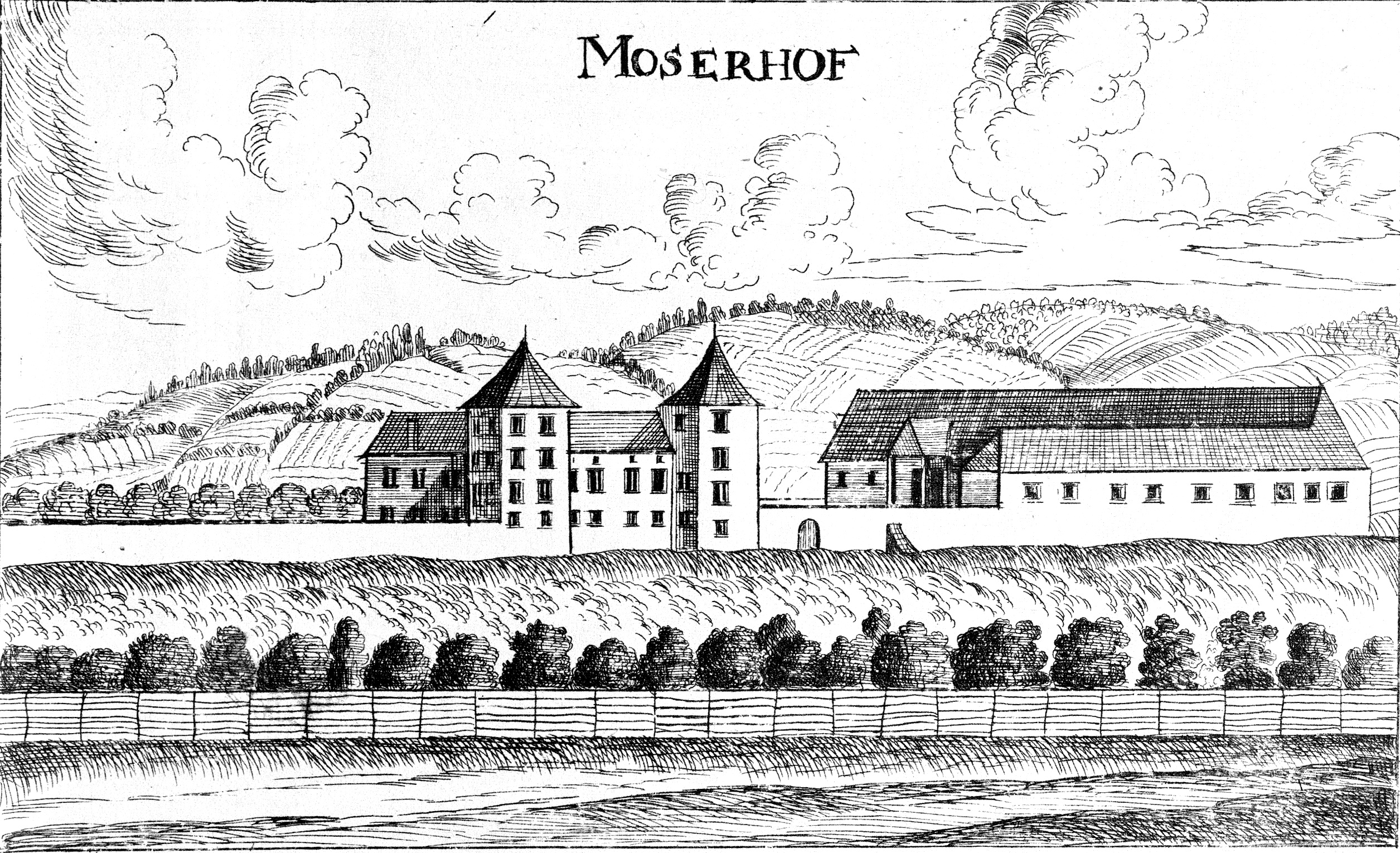 Castle Moserhof, Graz, Austria, Engravings by G. M. Vischer